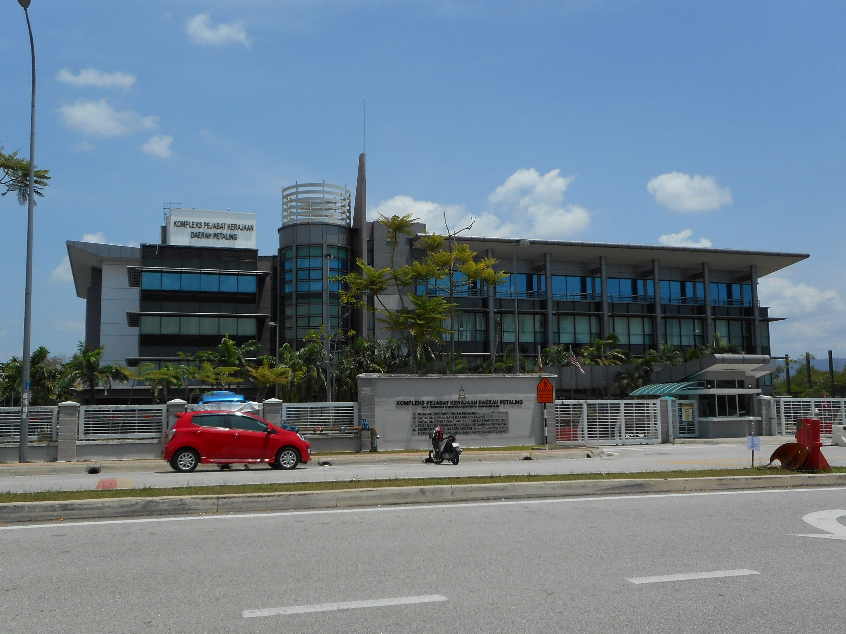 Petaling District Government Office Complex, Shah Alam, Petaling, Selangor, Malaysia